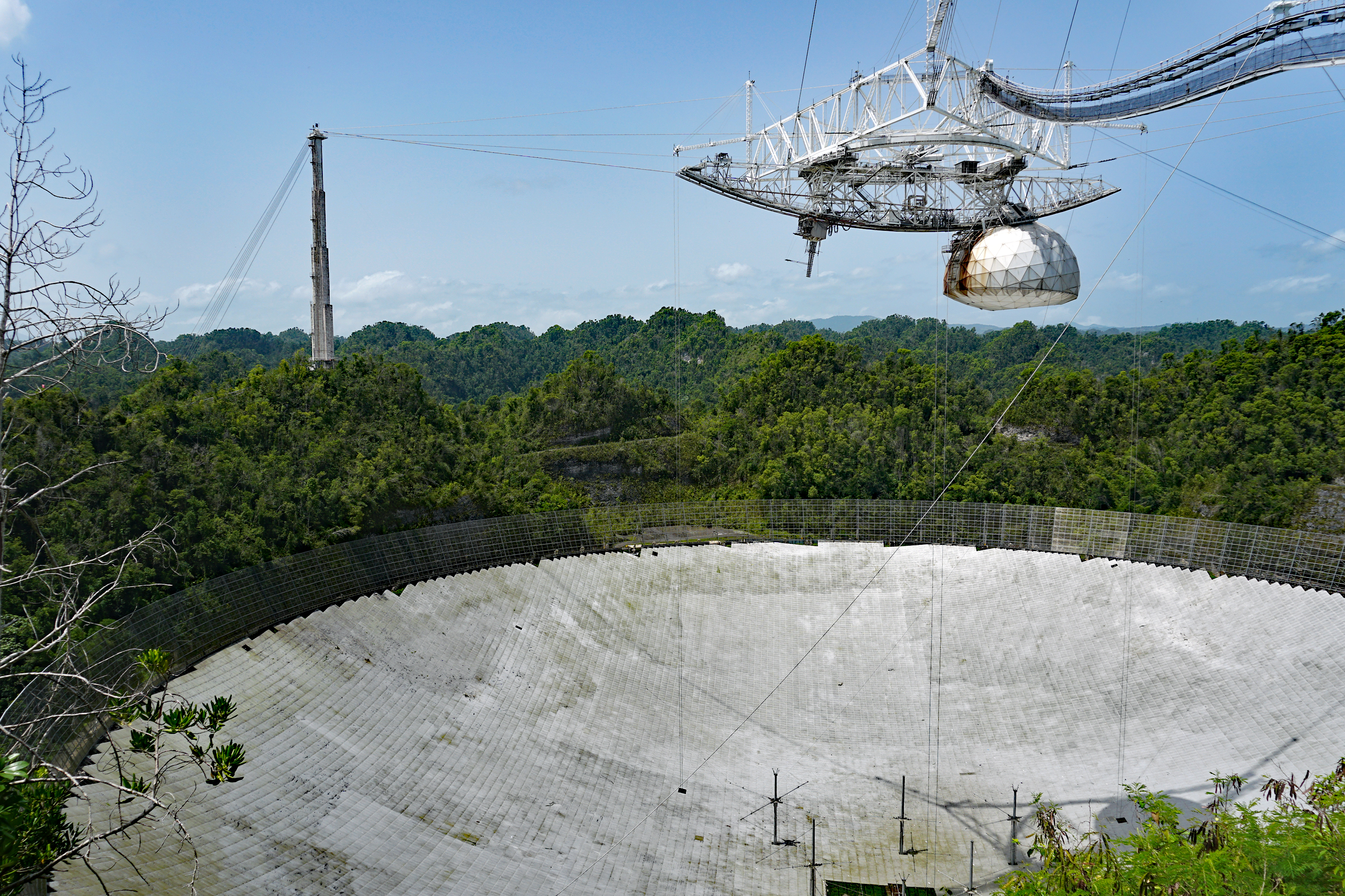 View of the Arecibo radio telescope primary dish and the spherical reflector, Arecibo Observatory, Puerto Rico.